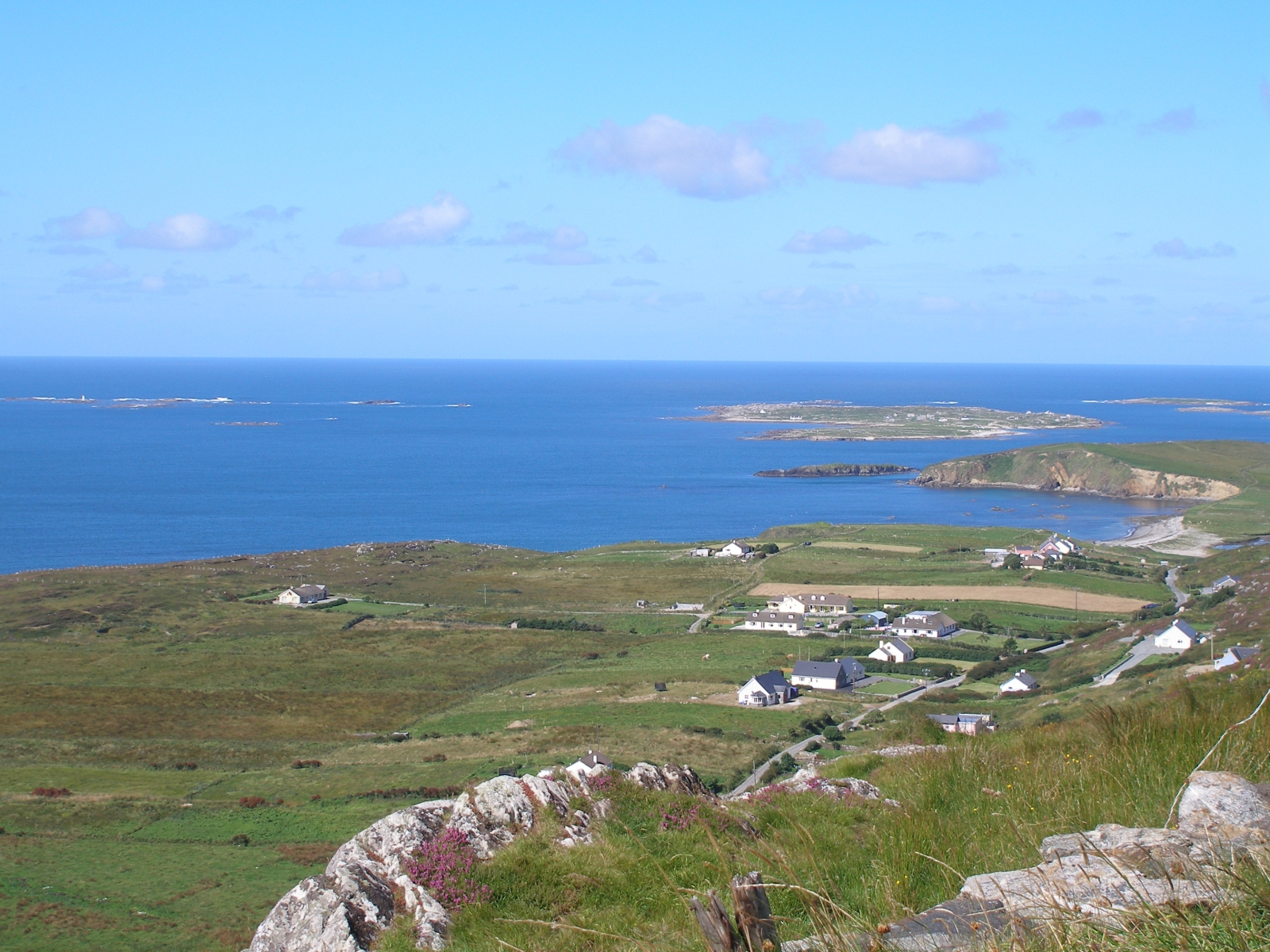 Picture of the western landscape seen from the lower Sky Road in Ireland